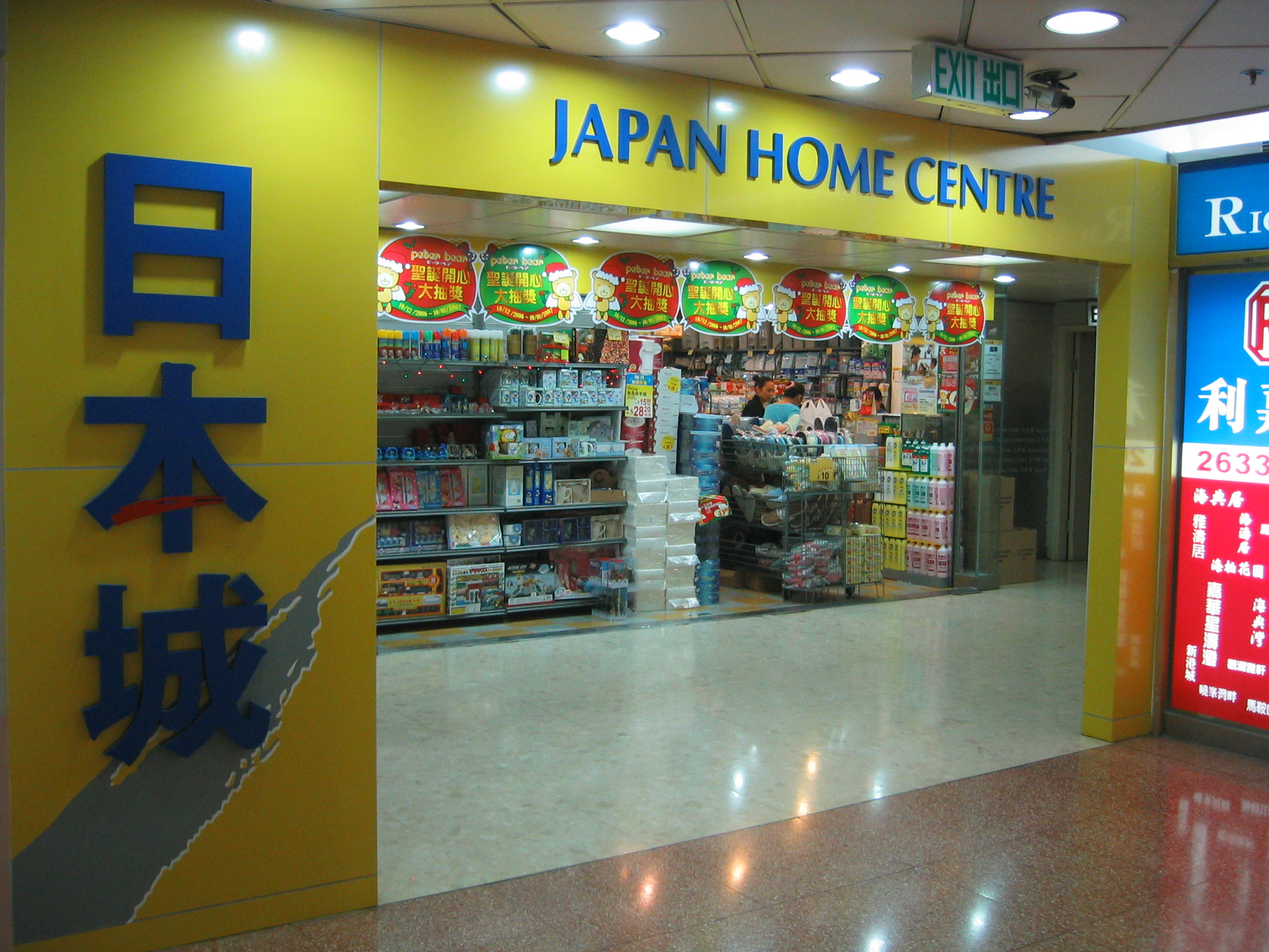 A Japan Home Centre store in Ma On Shan Plaza, Ma On Shan, Shatin, Hong Kong.